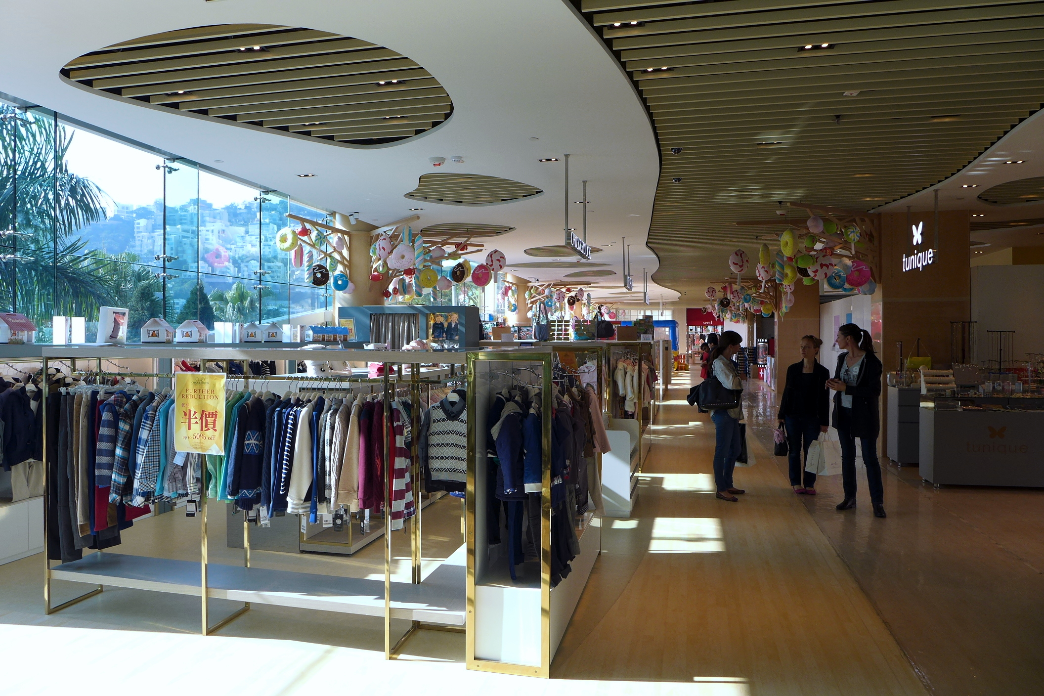 The Pulse L2 peek-a-boo